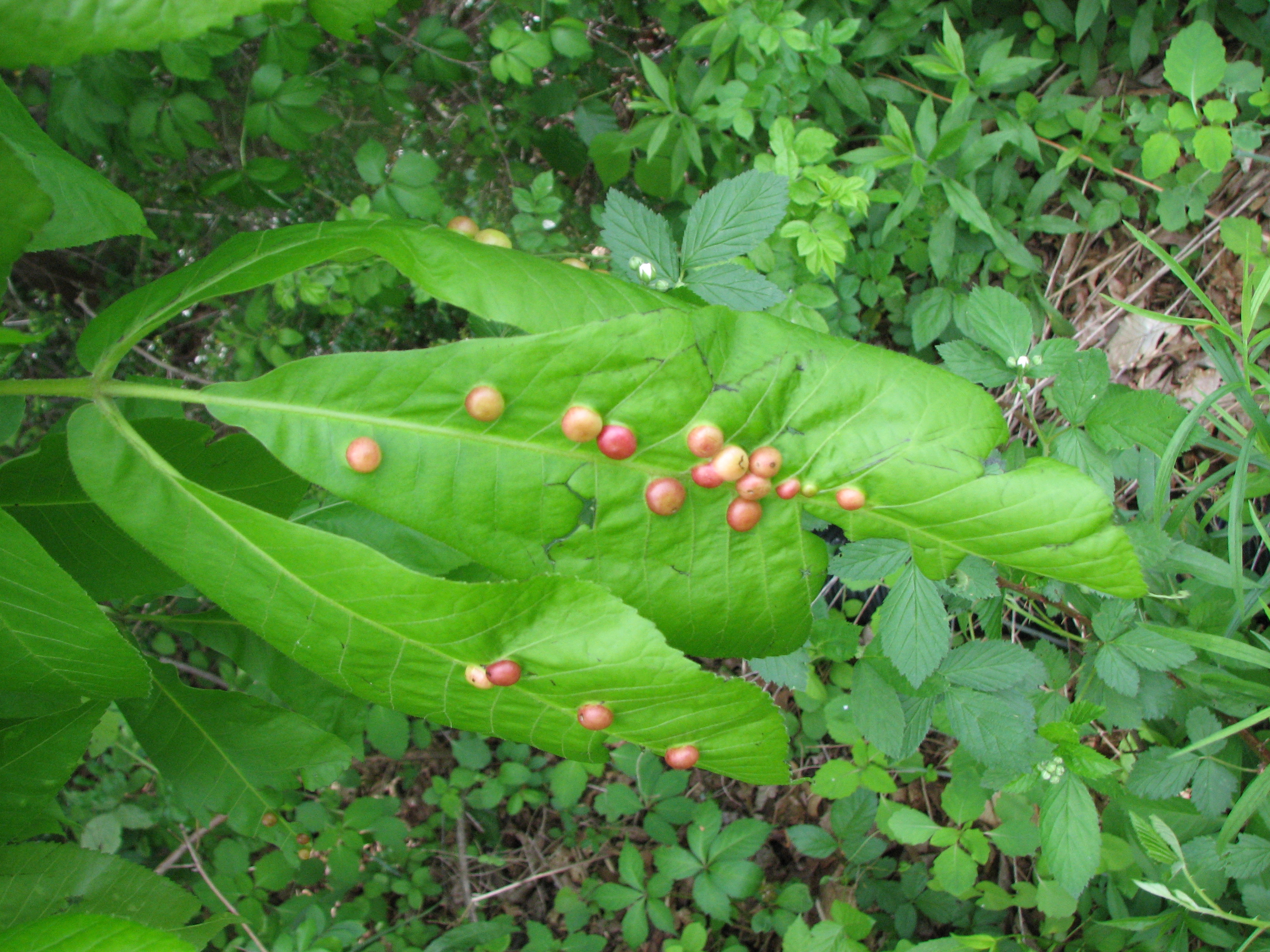 Galls of Phylloxera on leaf of Carya ovata (shagbark hickory). Horsham trail. Horsham, Montgomery County, Pennsylvania, USA.